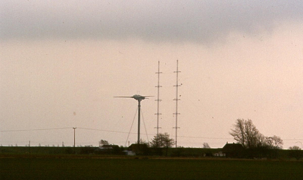 GROWIAN was an experimental wind turbine built at Kaiser-Wilhelm-Koog in Schleswig-Holstein (Germany). The turbine is no longer in existence. Picture was taken in 1982.